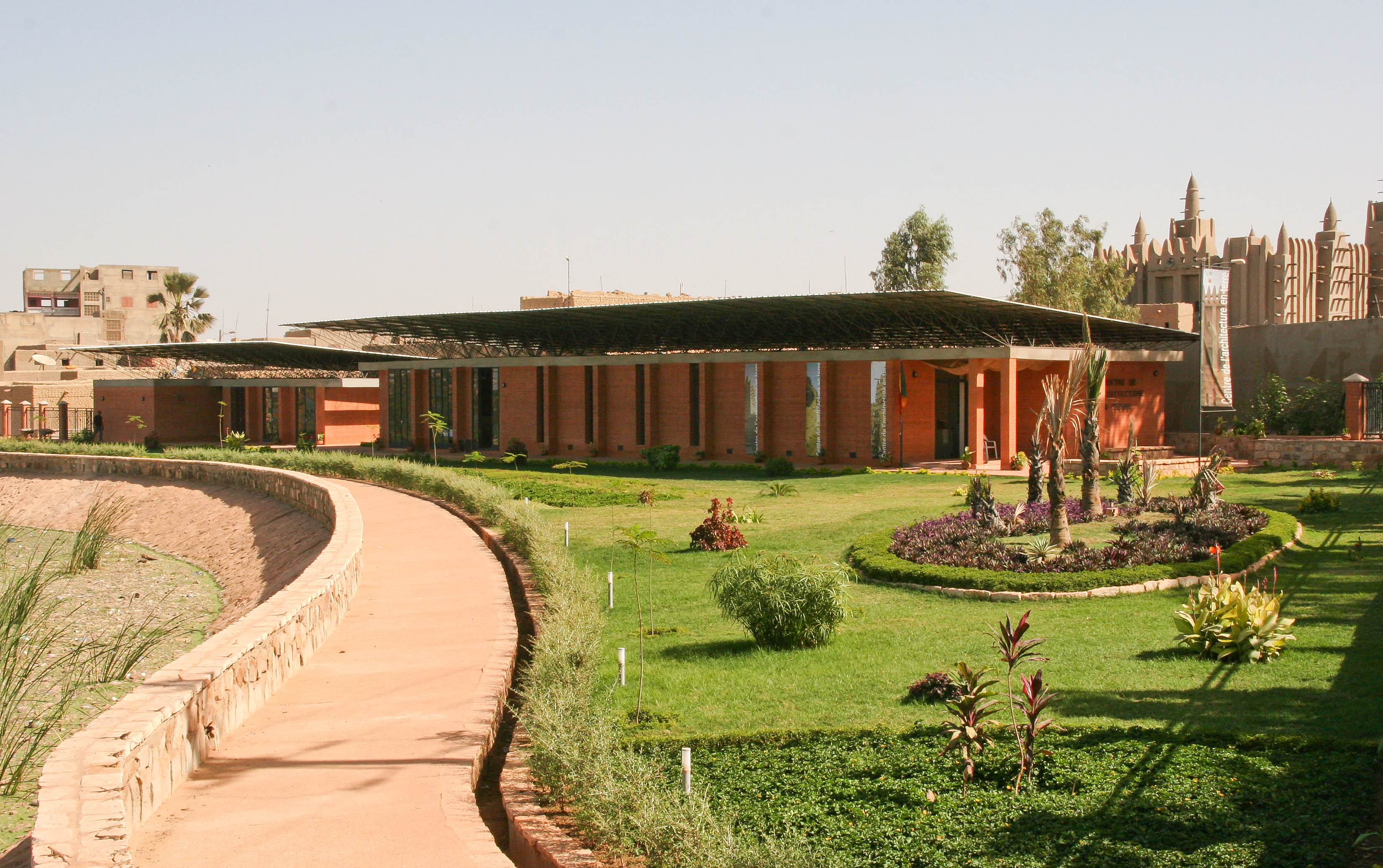 Centre for Earth Architecture, designed by Francis Kéré, is located Mopti, Mali. The centre is divided into three different buildings which are connected by two roof surfaces.